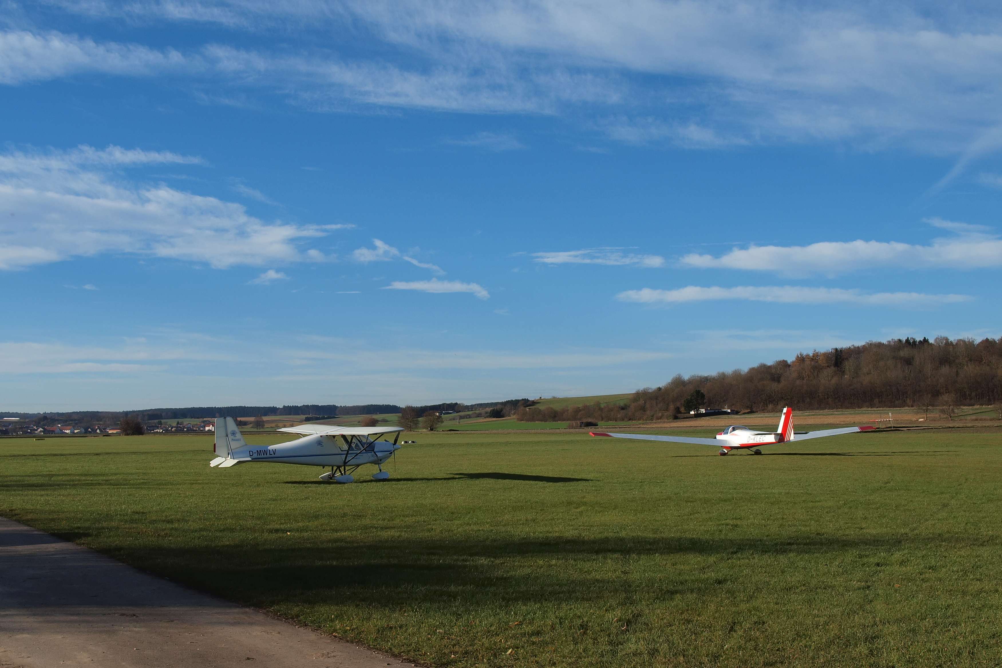 Gundelfingen airfield, Germany (EDMU) on a warm November day. D-MWLV is a microlight plane Ikarus C-42, D-KLEC is a powered glider Scheibe SF-25C Rotax-Falke.